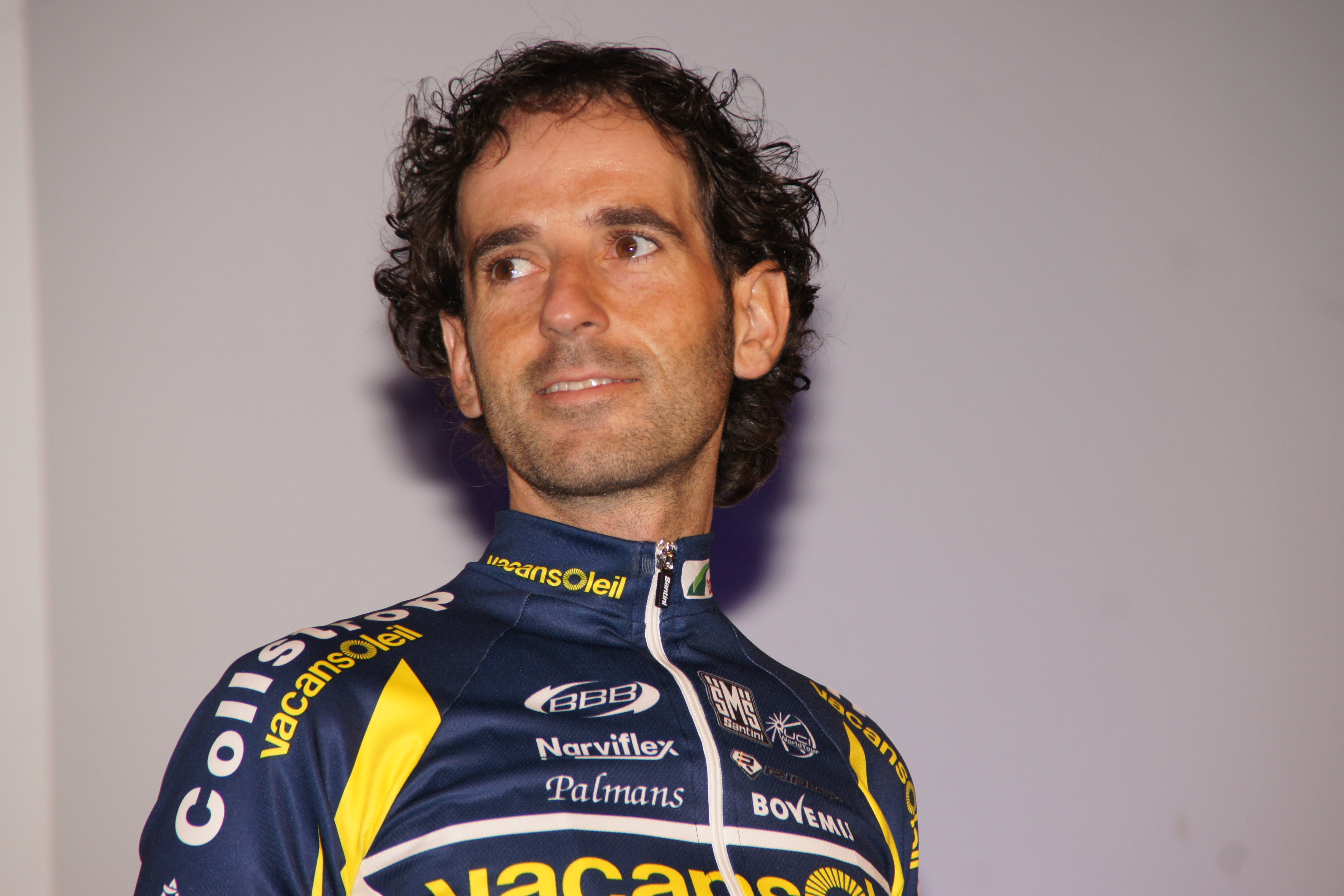 Ezequiel Mosquera during the presentation of Vacansoleil-DCM Cycling team in Ahoy' Rotterdam.